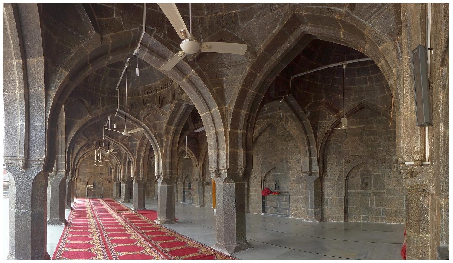 Jama Masjid of Beed in Maharashtra.